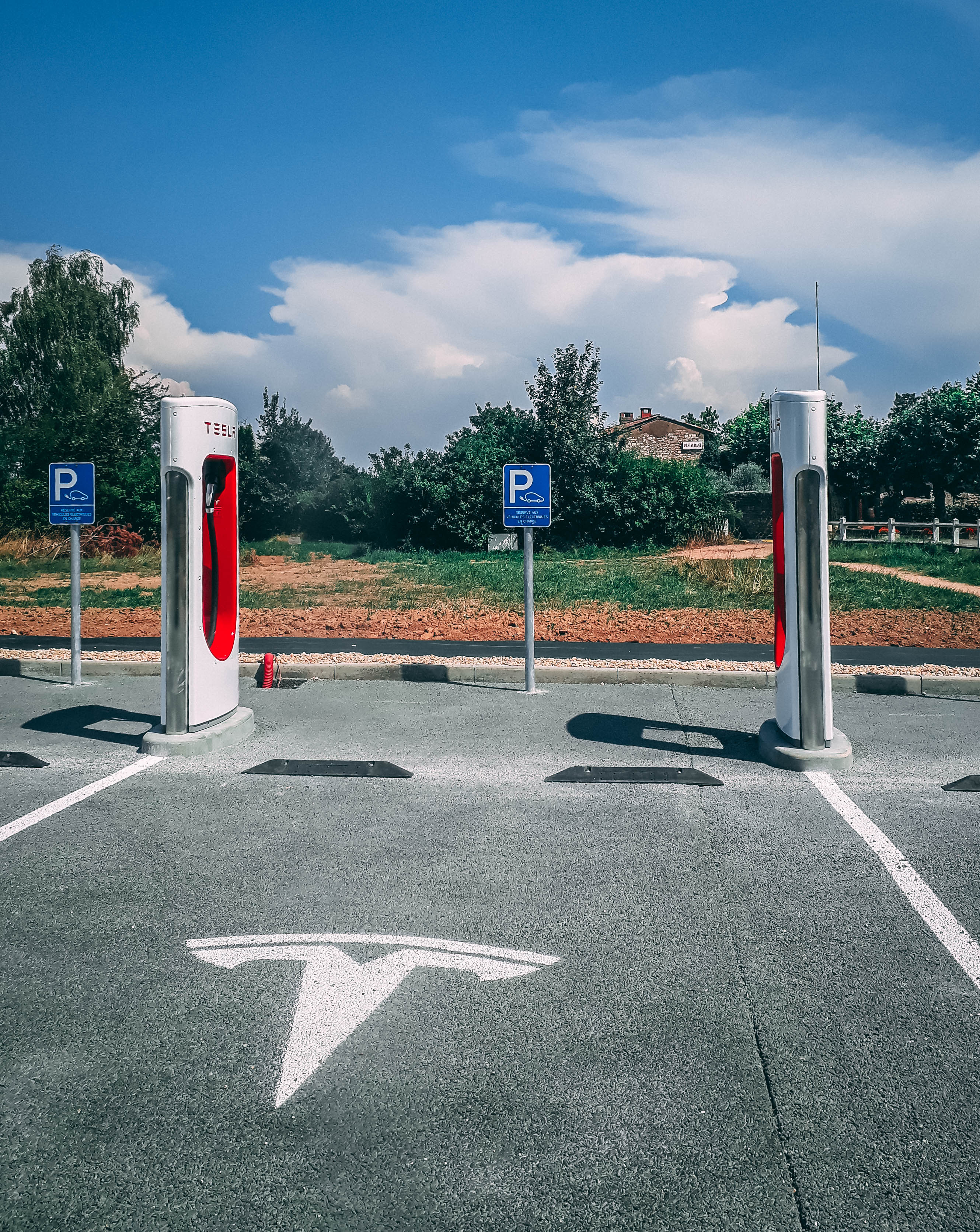 20 superchargers in Mâcon.